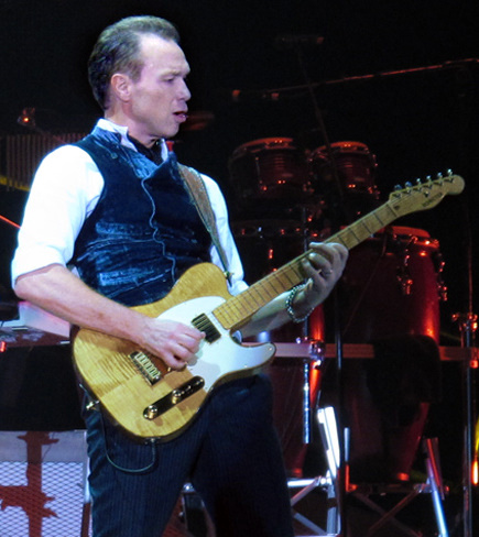 Gary Kemp of Spandau Ballet, Liverpool, October 2009